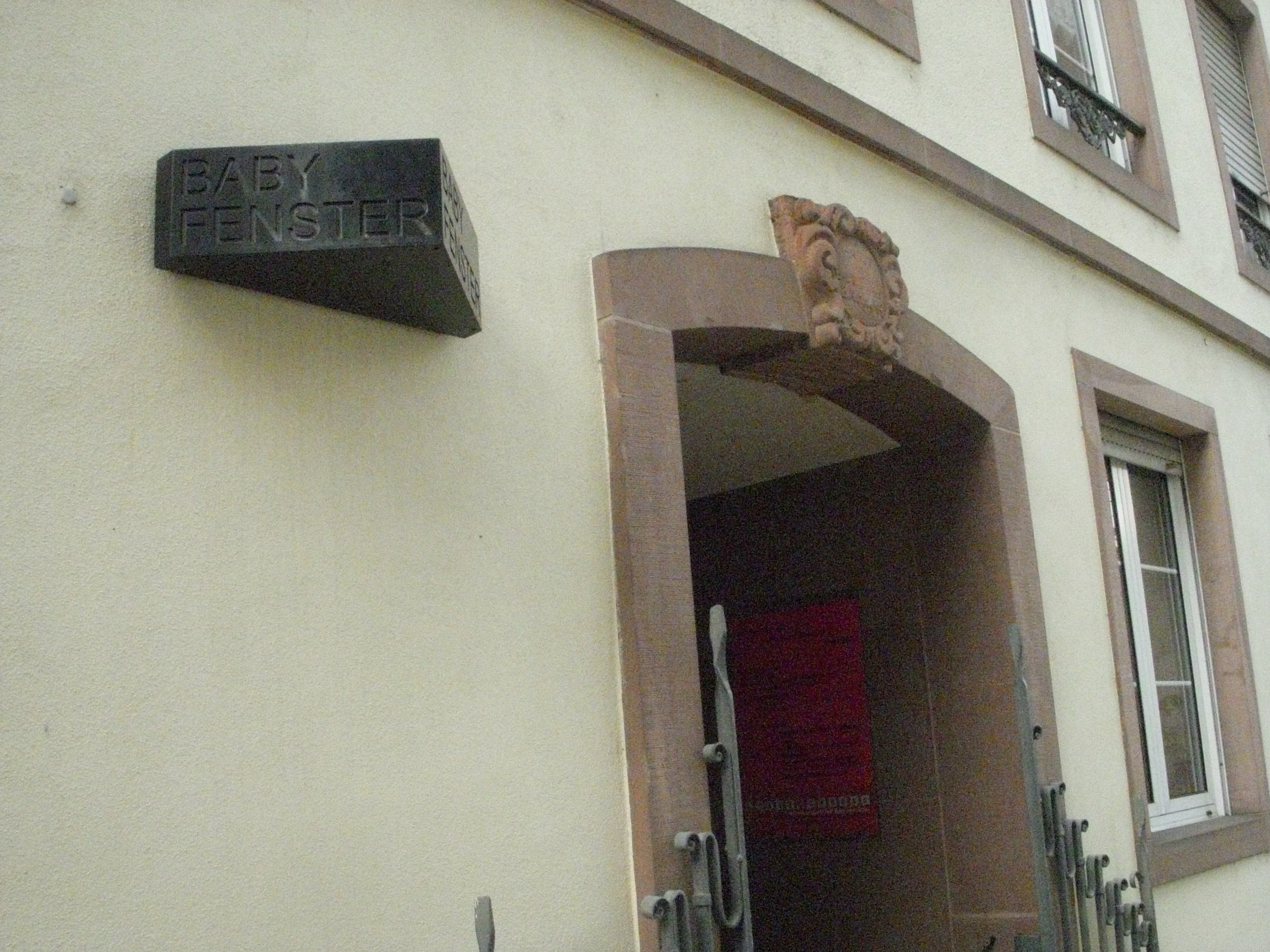 Baby Hatch Mainz Germany